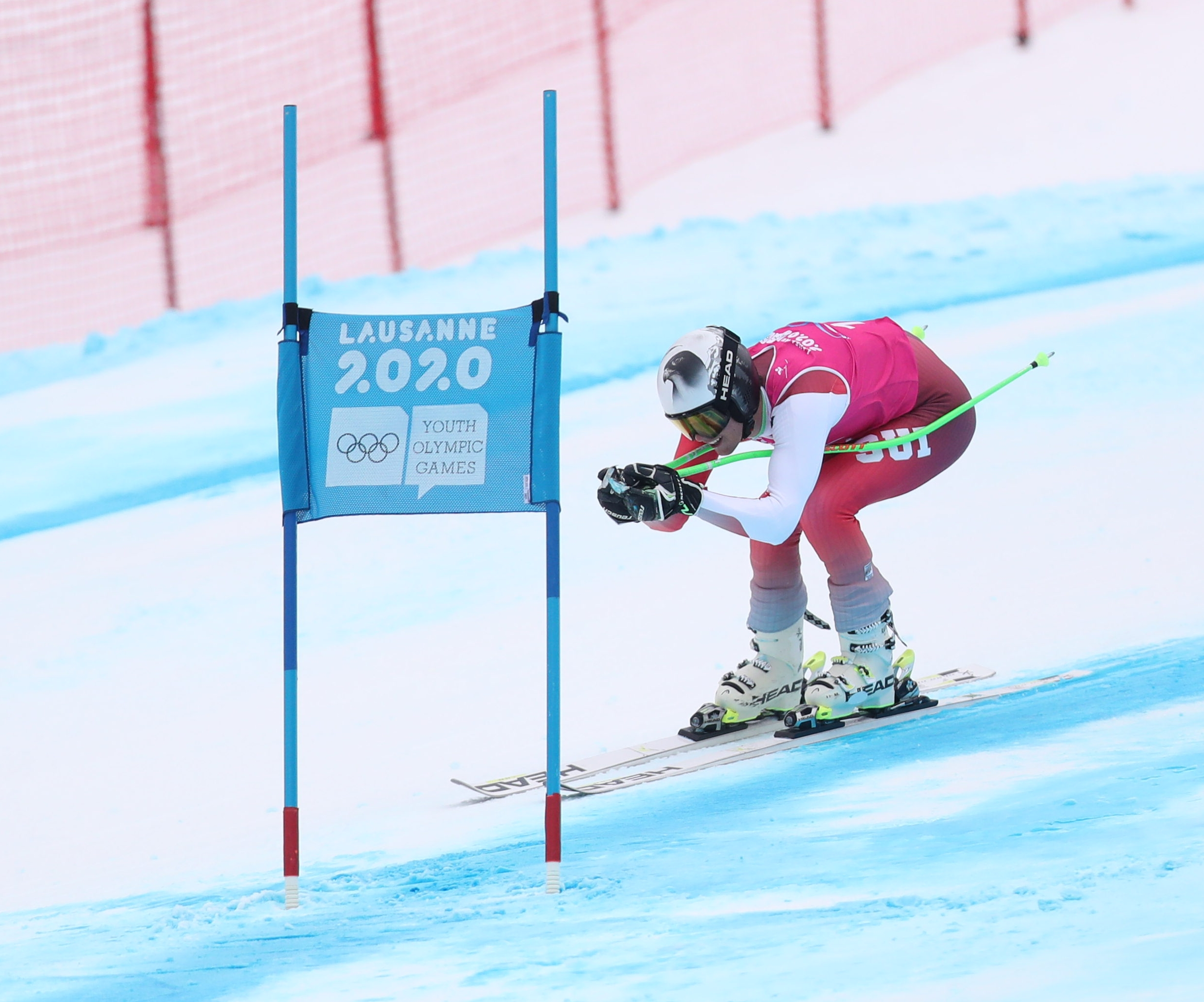 Men's Super G at the 2020 Winter Youth Olympics in Lausanne